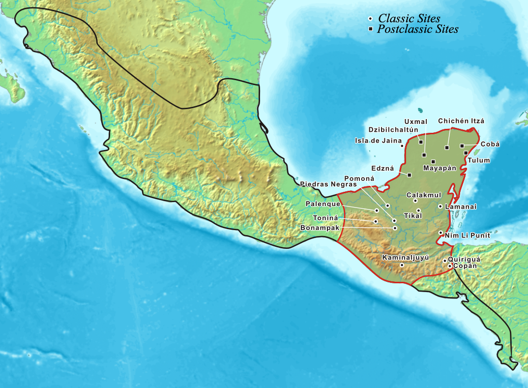 Map showing the extent of the Maya civilization (red), compared to all other Mesoamerica cultures (black). Within Central America and southern North America (Mexico). This map also shows the cities and cultural mainsteads of the Maya, who did not have an empire but rather a group of loosely associated city-states.